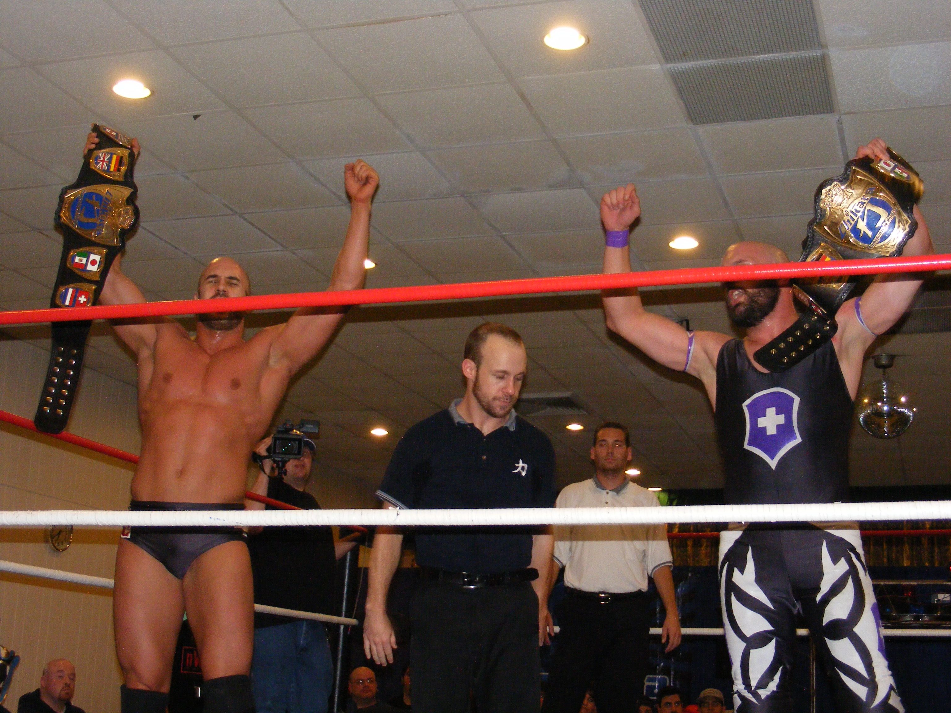 Claudio Castagnoli (left) and Ares (right) of Bruderschaft des Kreuzes as the Chikara Campeones de Parejas at a Chikara show in Hamden, CT on October 24, 2010.